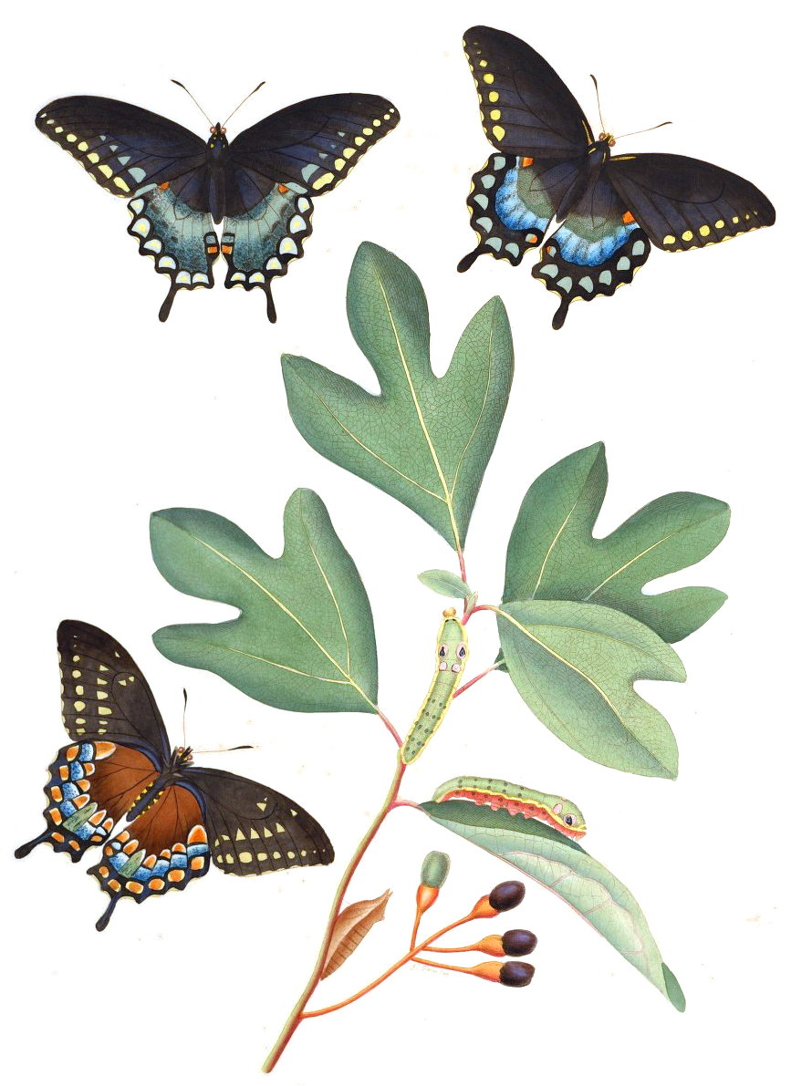 Spicebush Swallowtail , Papilio troilus, on Sassafras, Sassafras albidum (hostplant), hand-colored engraving